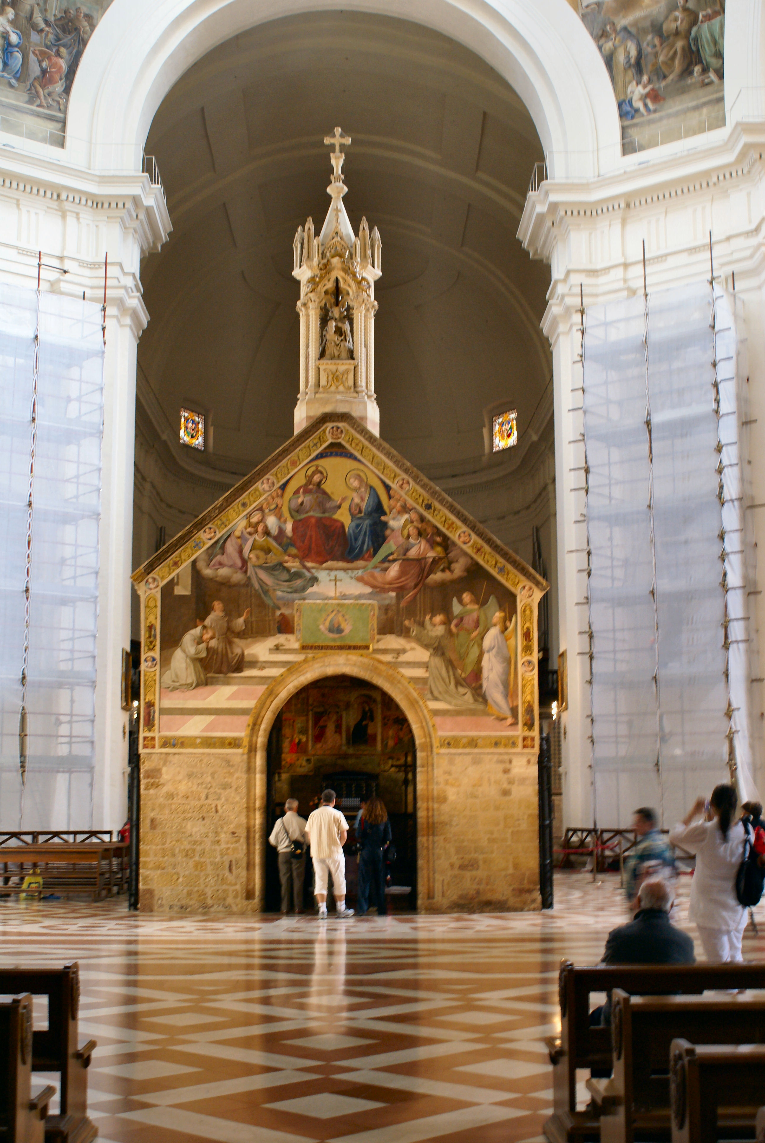 The Portiuncola Chapel, Santa Maria degli Angeli, Assisi